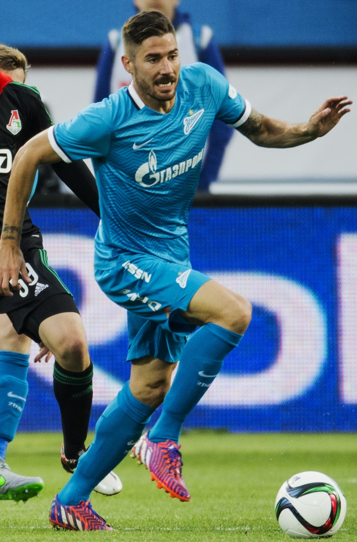 Javi García